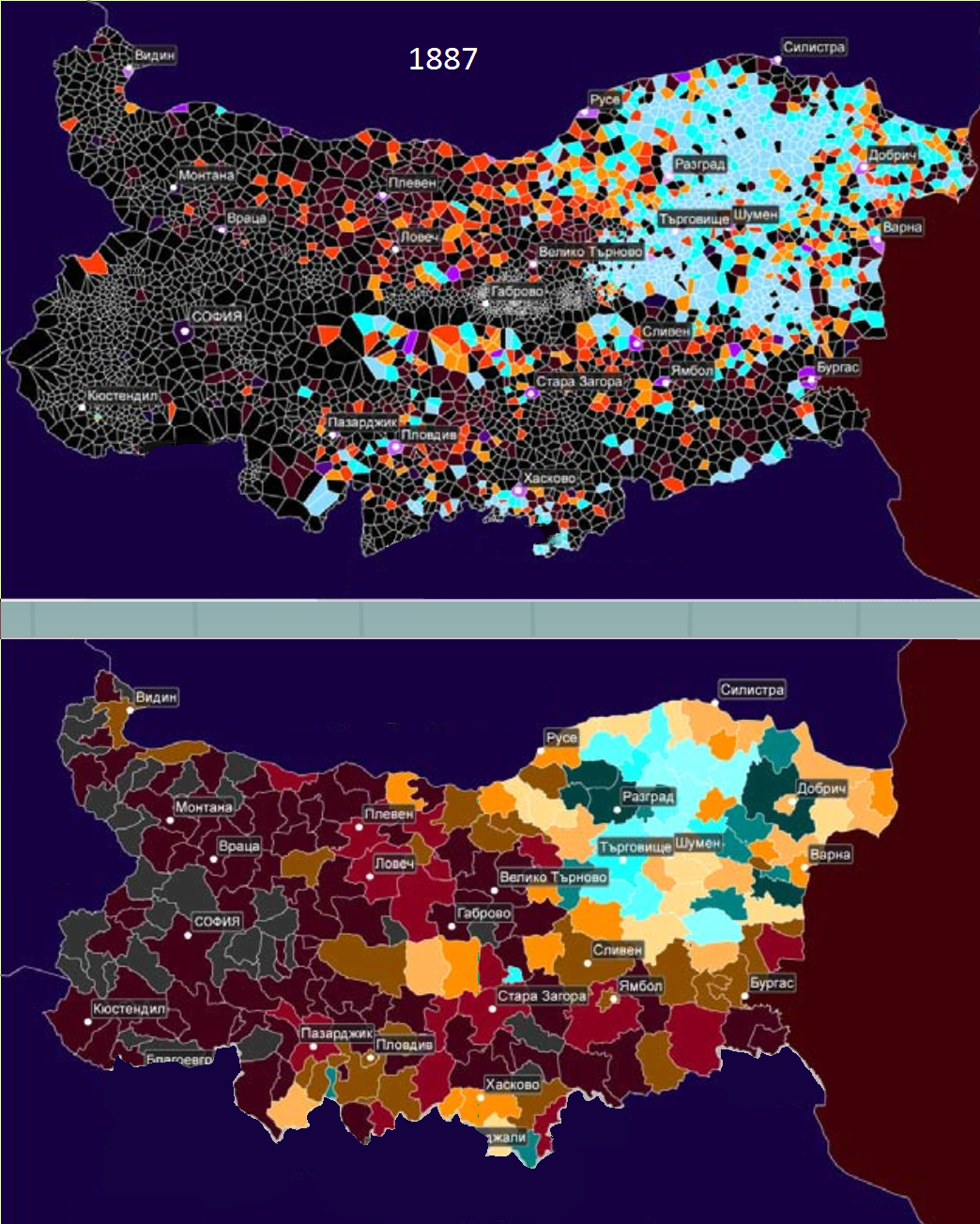 Distribution of Turkish speakers (mainly Turks, Roma, Gagauz, Tatars) in Bulgaria according to the 1887 census. Their frequency descends from blue color, to orange/red and purple and from their lighter to darker shades.